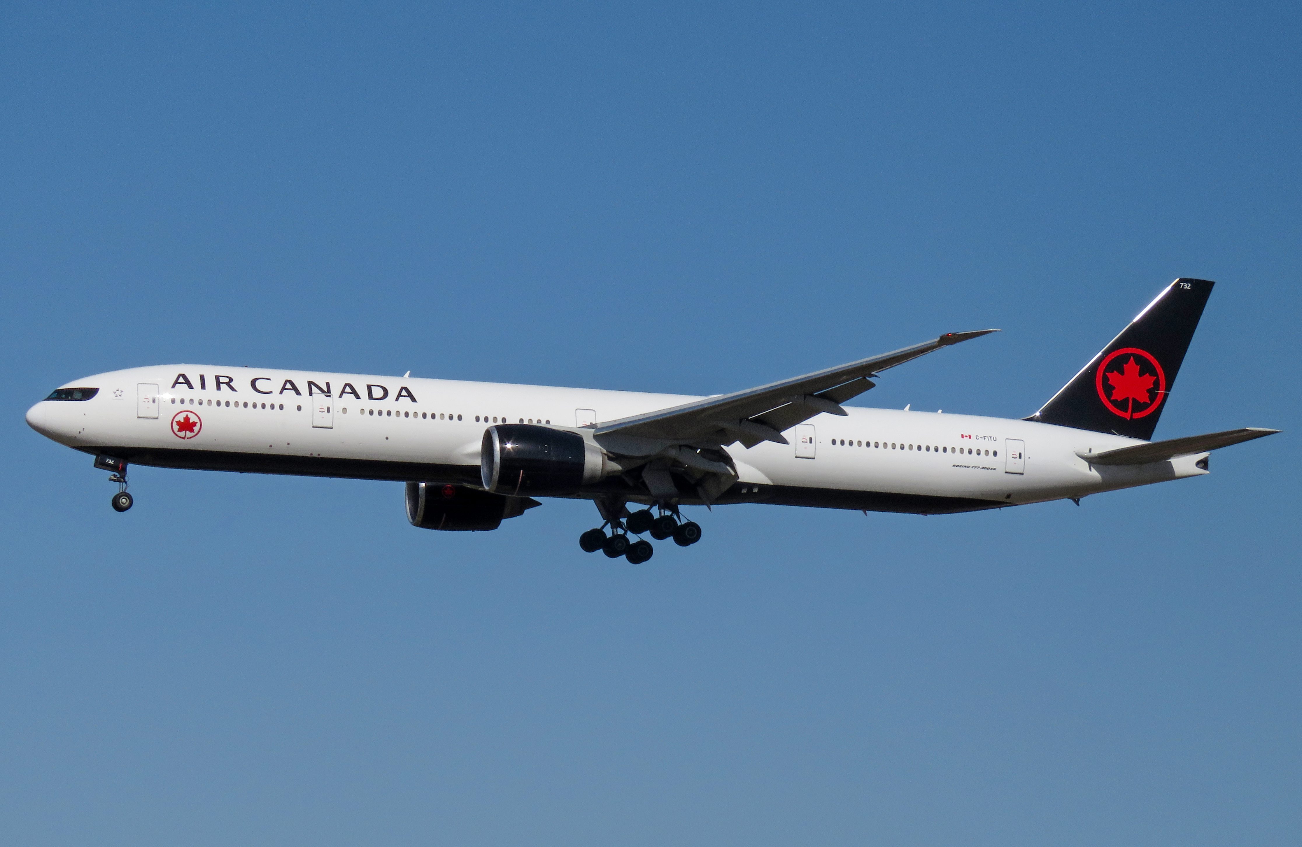 Air Canada 31 from Toronto. Be careful when spotting 77W...